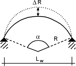 Fig. 1. Maximum normal stresses of straight and curved bridges [2] [2] Pötzl, M.: Robuste Brücken – Vorschläge zur Erhöhung der ganzheitlichen Qualität, Friedr. Vieweg & Sohn Verlags- gesellschaft mbH, 1996.